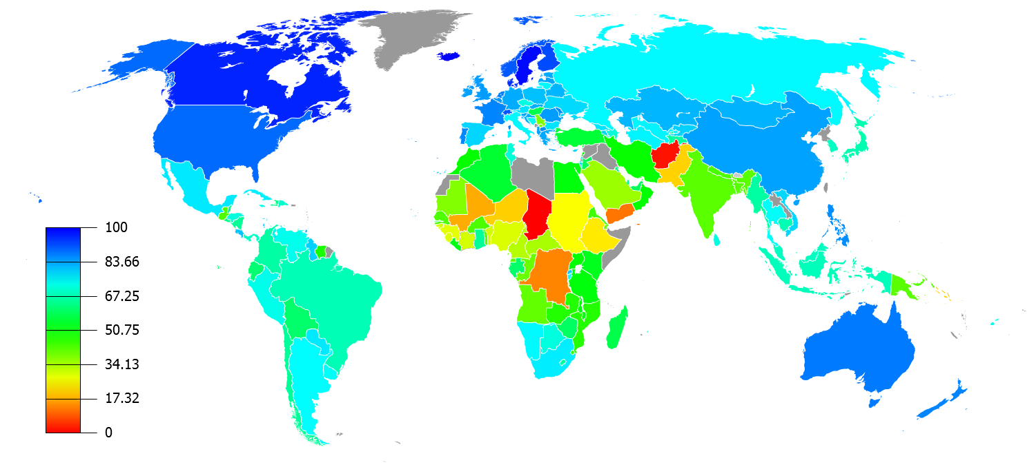 Status of Women by country in 2011 according to study by Lauren Streib published in 20 September 2011 Newsweek. Women's status is calculated based on a score from 1 (worst) to 100 (best) in 5 domains of society: Justic, Health, Education, Economics and Politics. Data excerpted from Best and Worst Countries for Women